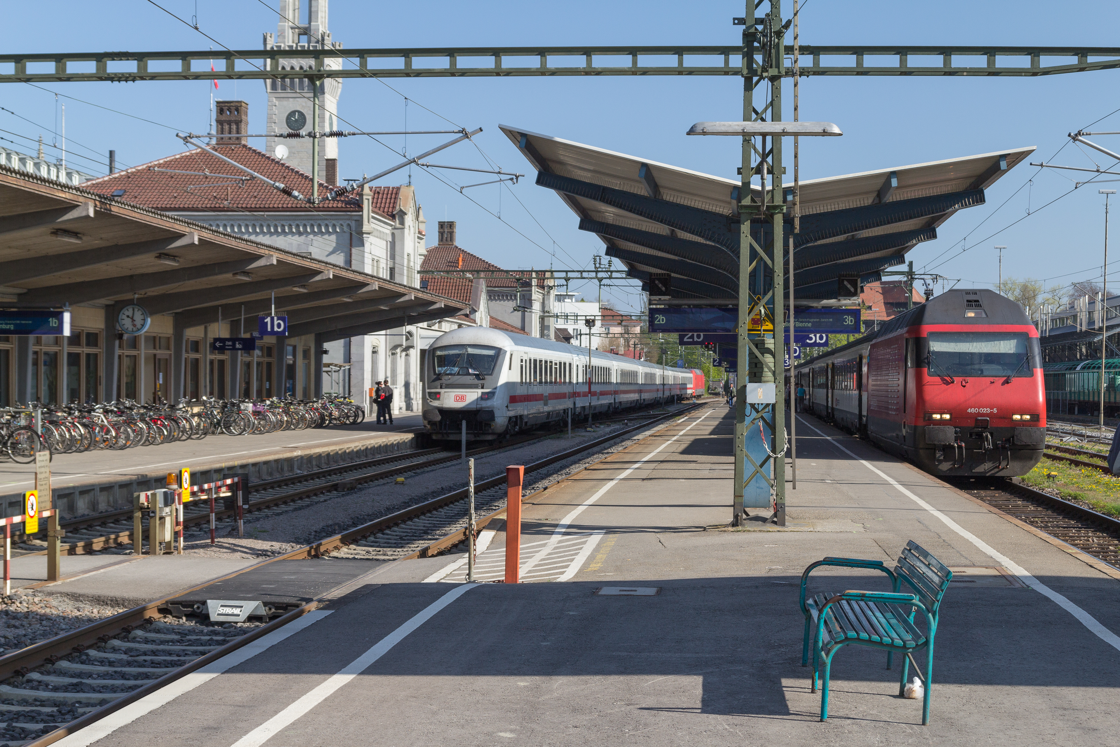 Constance train station with the German Intercity to Hamburg on the left and the Swiss Interregio to Biel/Bienne on the right (2011)